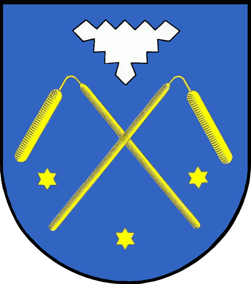 Coat of arms of the municipality Großenbrode in Schleswig-Holstein, Germany.